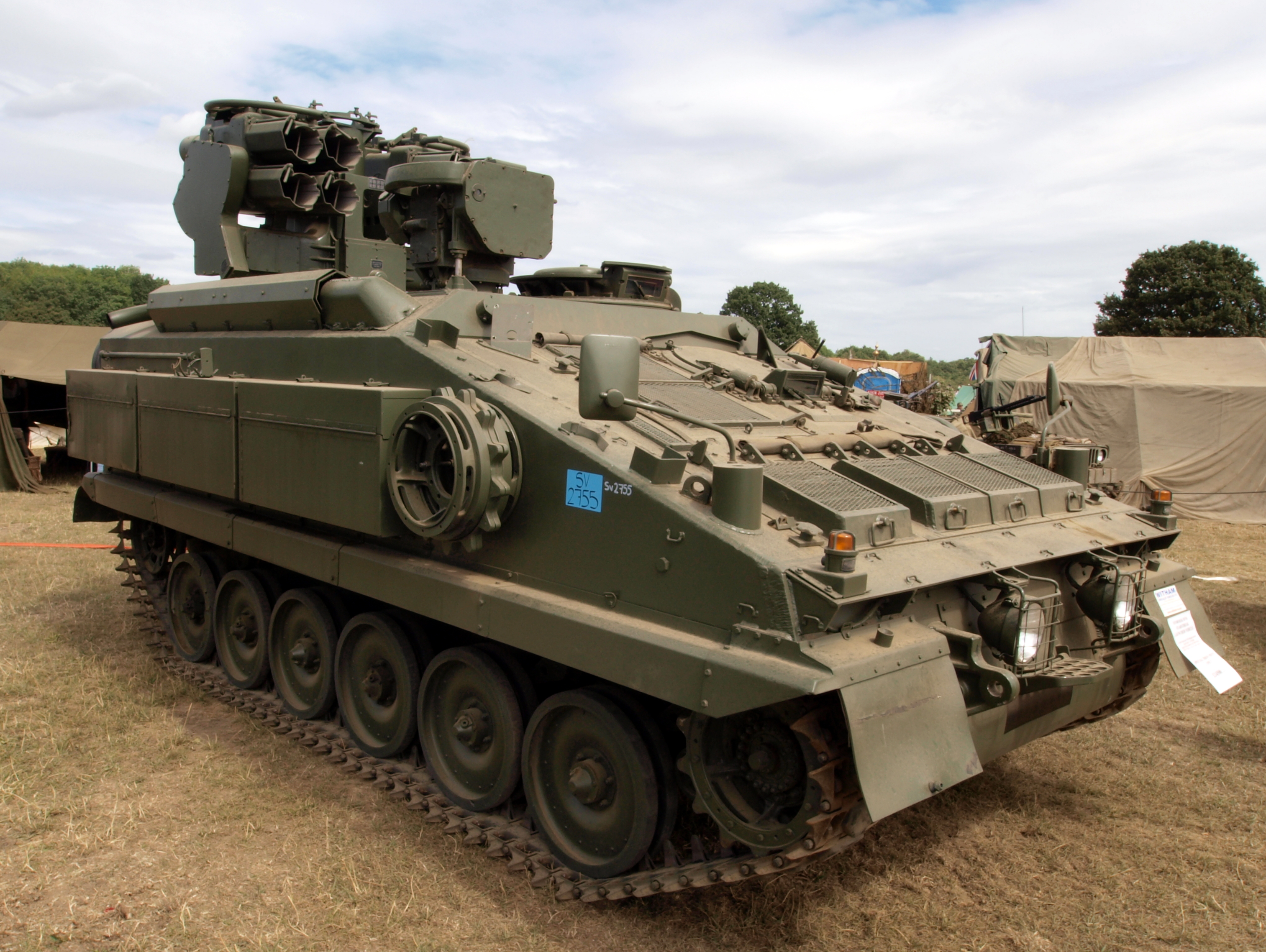 Stormer HVM Starstreak Launcher vehicle